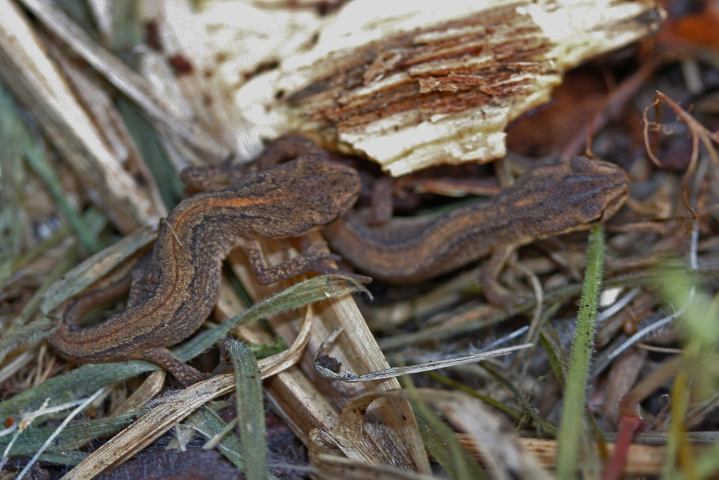 Lea Valley Park, Hertfordshire.